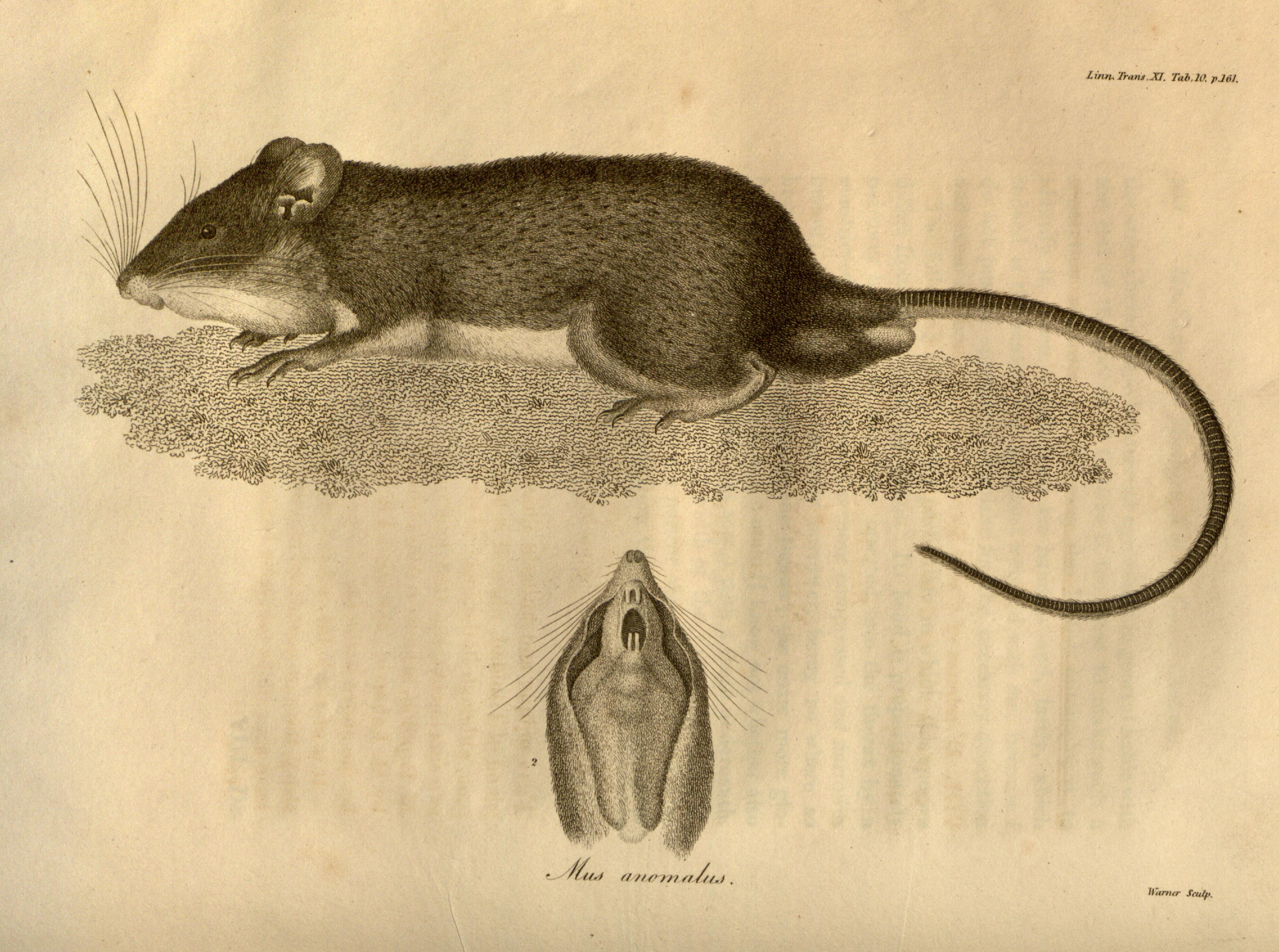 Trinidad spiny pocket mouse (Heteromys anomalus), illustration from first description of John Vaughan Thompson, 1815